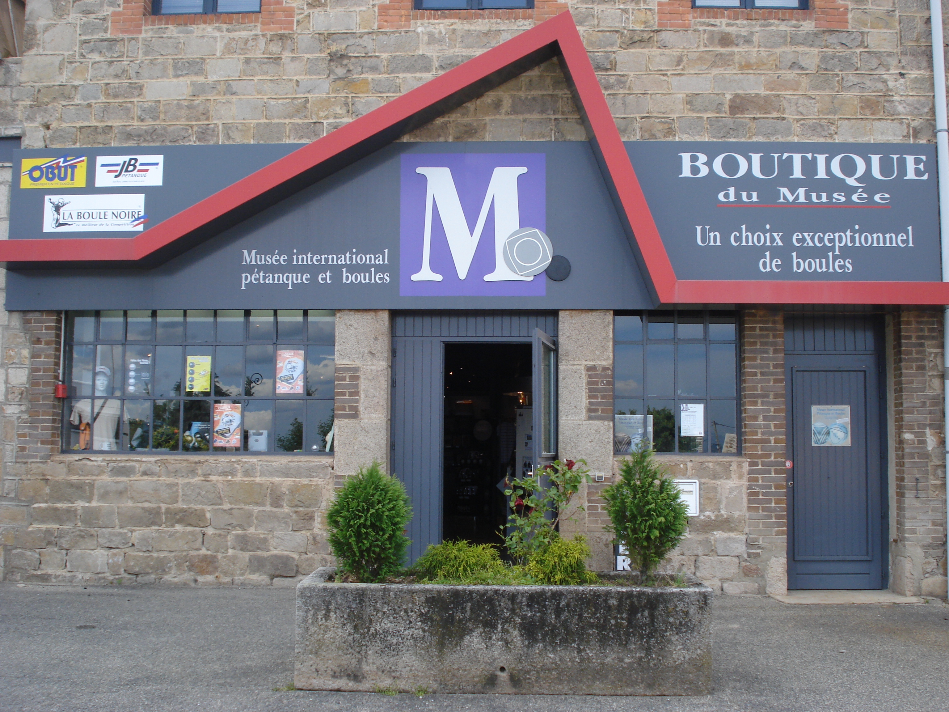 Saint-Bonnet-le-Château (Loire, Fr), Musée international de pétanque et de boules en 2009. Ce musée n'existe plus (mars 2012) à cet endroit et sous cette présentation